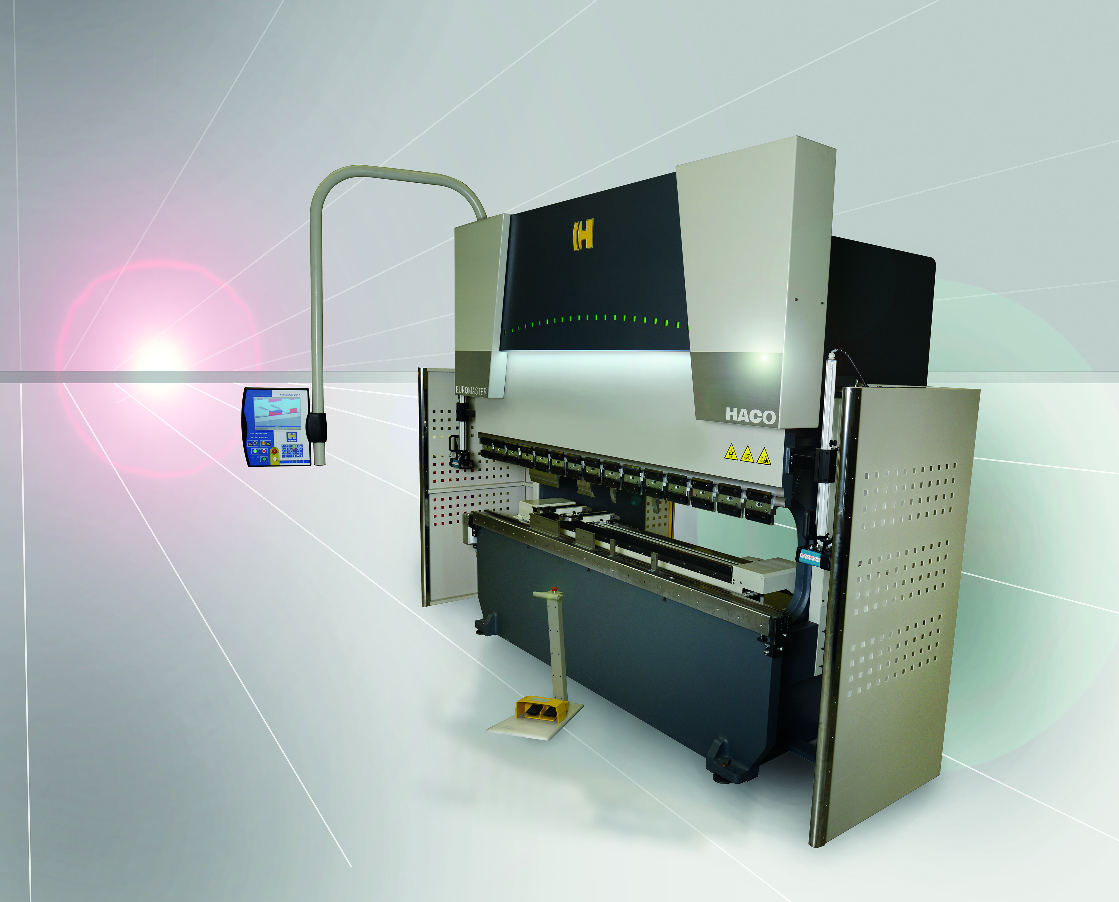 Picture of a modern press brake